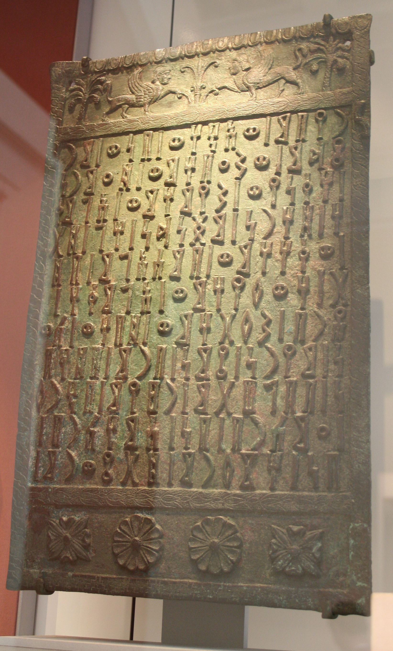 Art from Ancient Yemen, British Museum, London